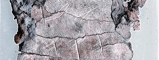 Portion of writing on silver scroll with the "Priestly Benediction" (Numbers 6:24-26) in which the tetragrammaton can be seen. Earliest depiction of the tetragrammaton - dated around 600 B.C.E. "May YHWH bless you and keep you; may YHWH cause his face to shine upon you and be gracious to you; may YHWH lift up his countenance upon you and grant you peace." In Hebrew: יברכך יהוה וישמרך יאר יהוה פניו אליך ויחנך ישא יהוה פניו אליך וישם לך שלום Found in 1979 in Jerusalem. As reported in The Bulletin of the American Schools of Oriental Research by Dr. Gabriel Barkay, the archaeologist at Bar-Ilan University in Israel who discovered the artifacts, and collaborators associated with Southern California's West Semitic Research Project. The project leader is Dr. Bruce Zuckerman, a professor of Semitic languages at U.S.C., who worked with Dr. Marilyn J. Lundberg, a Hebrew Bible specialist with the project, and Dr. Andrew G. Vaughn, a biblical historian at Gustavus Adolphus College in St. Peter, Minn.